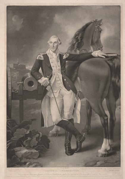 Engraving:General Washington, by Thomas Stothard. Current location: Dallas Museum of Art